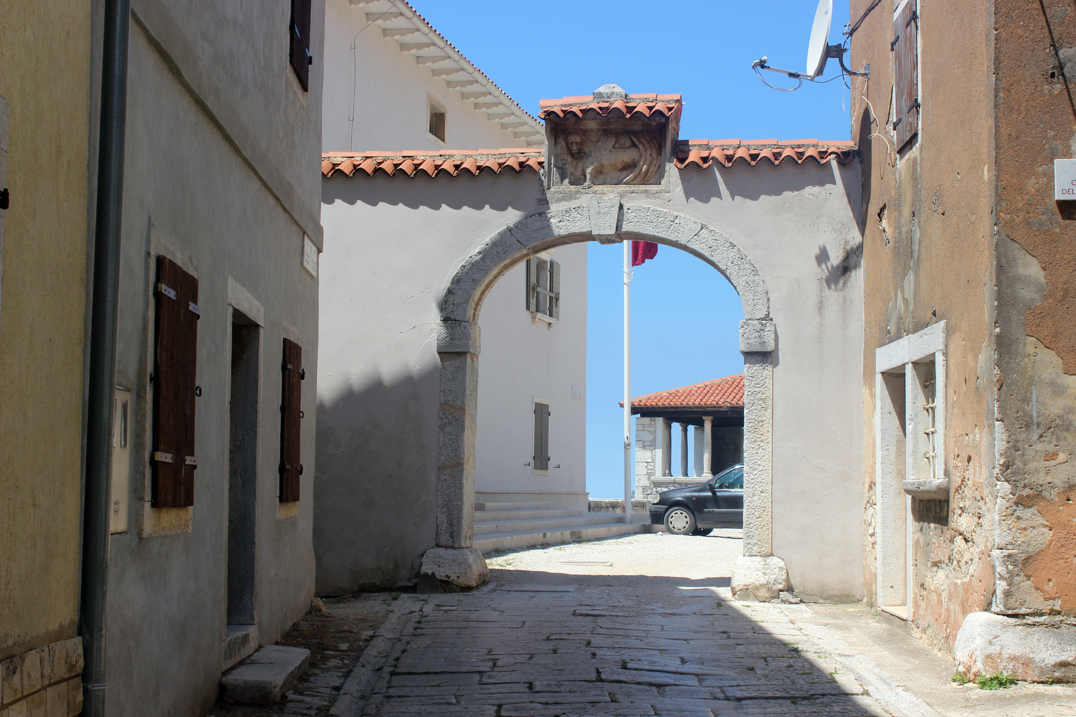 Serenissima gate (Vrata Serenissima), with Lion of Saint Mark, view outside of the main square, in Višnjan, Croatia